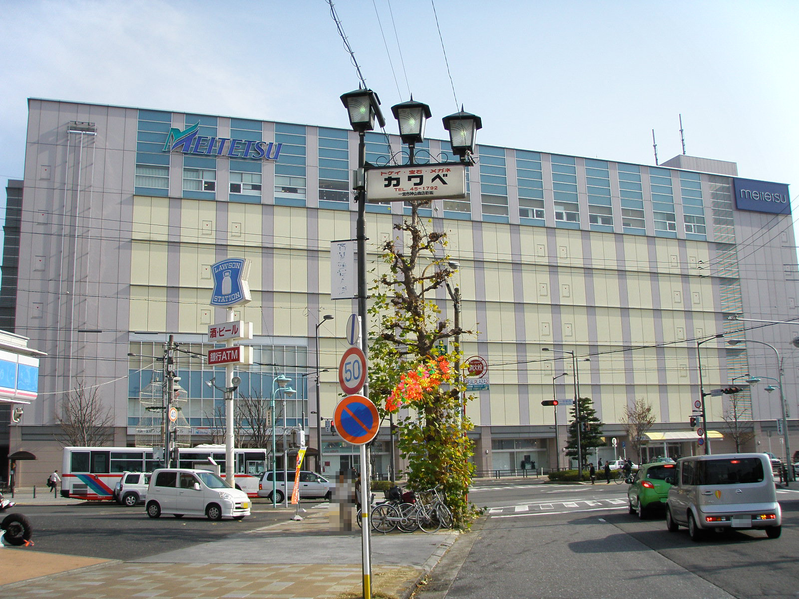 Nagoya Railroad Nagoya Main Line & Bisai Line Meitetsu-Ichinomiya Station Building and Meitetsu Department Store Ichinomiya store